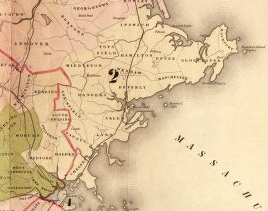 Detail of: Title: A map showing the Congressional districts of Massachusetts as established by the Act of Sept. 16, 1842 / [S.l. : s.n., ca. 1842?] Call Number: G3761.F7 1842 .M3 Repository: Library of Congress Geography and Map Division Washington, D.C. 20540-4650 USA dcu Digital Id: g3761f ct002131 Library of Congress Catalog Number: 2007630411